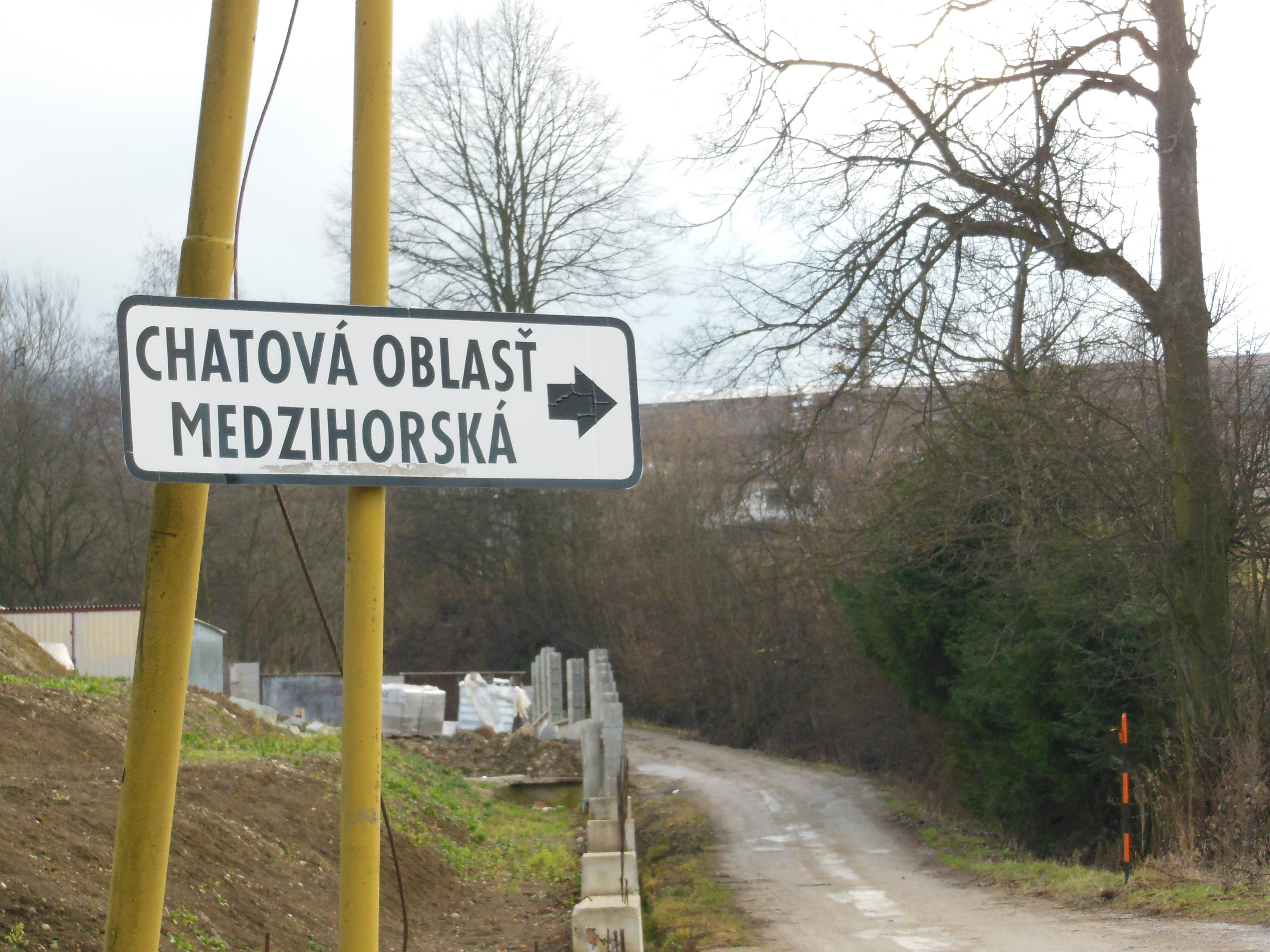 This is a main road in Chatová oblasť Medzihorská.